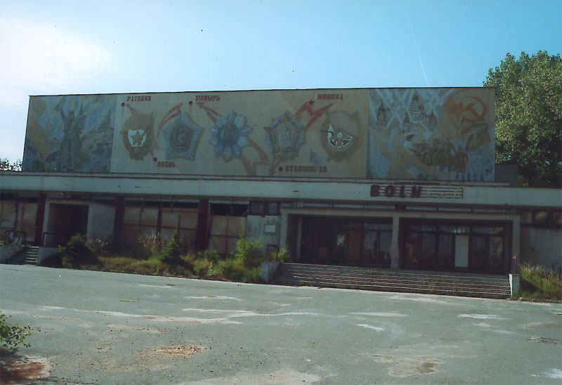 Former soviet base (building of the soldiers' club) in Czech Milovice as seen in year 2000. Abandoned shops, inscription Bolnica - hospital in latin script was made after 1991 by film makers, I think. Currently it is Topolová 911, Milovice, Kindergarten Milischool.